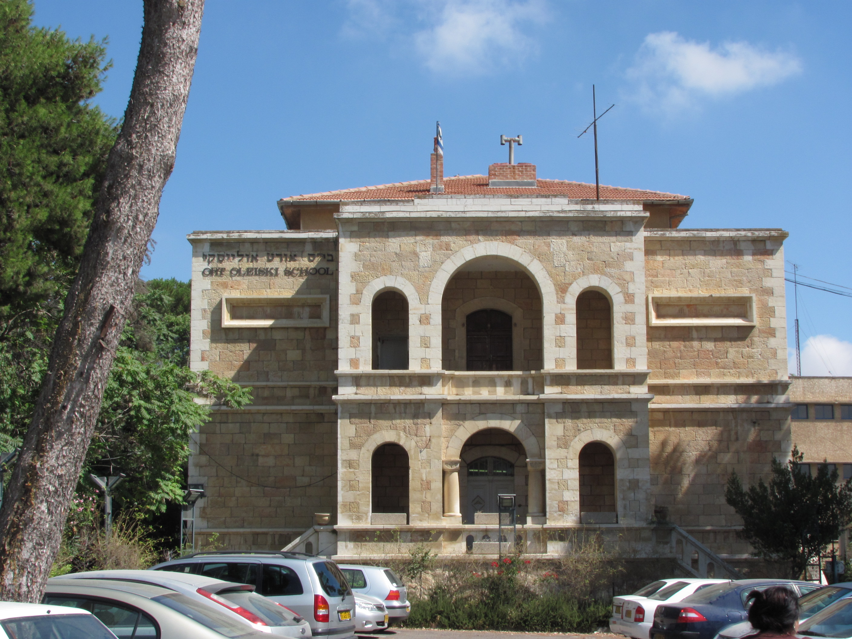 The Ort-Orleiski school at 42 Street of the Prophets, Jerusalem, between 1903 and 1940 the German provostry (Propstei), domicile and office of the provost (Propst) at Redeemer Church